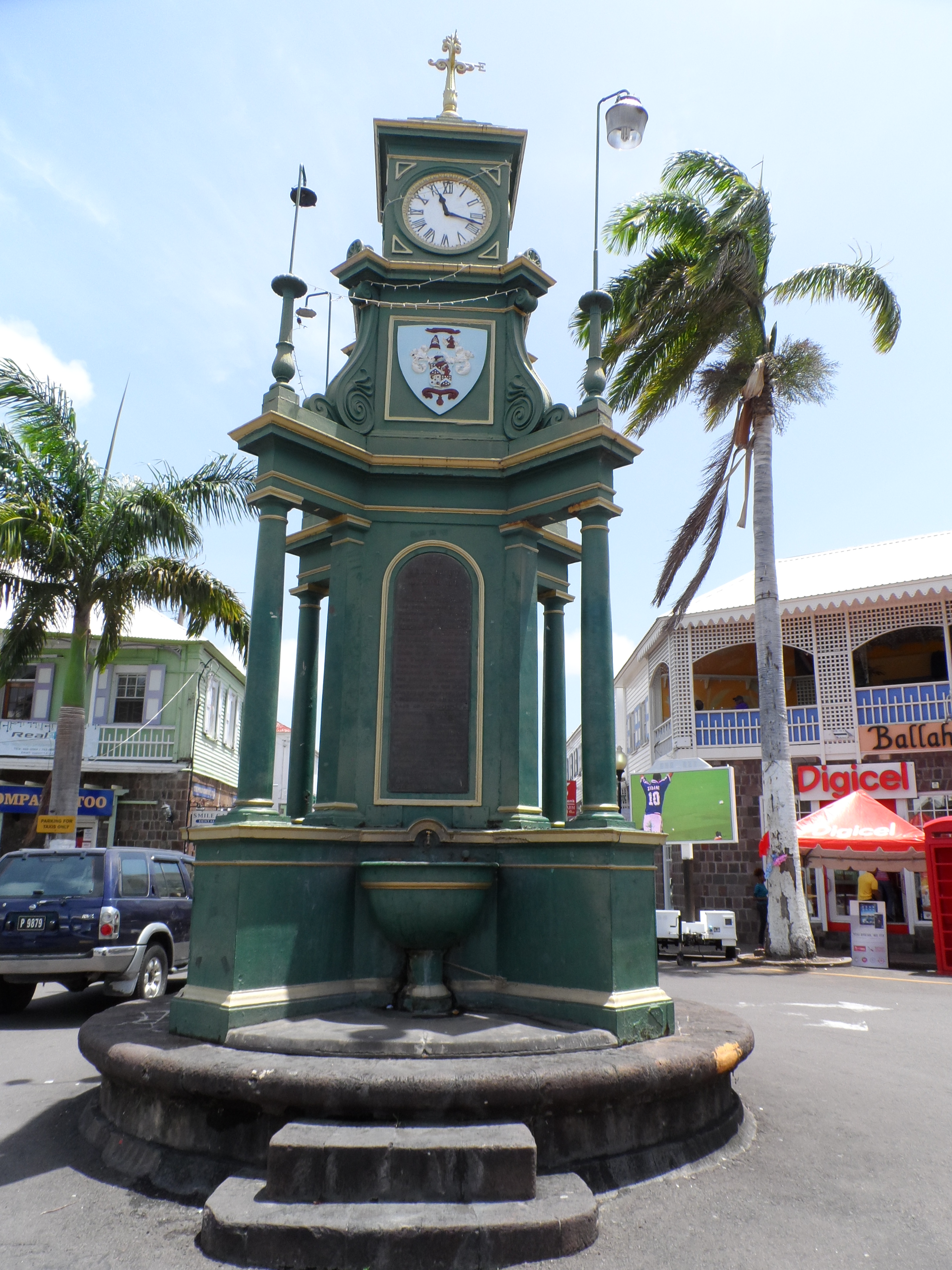 Clock Tower at The Circus in Basseterre, Saint Kitts and Nevis